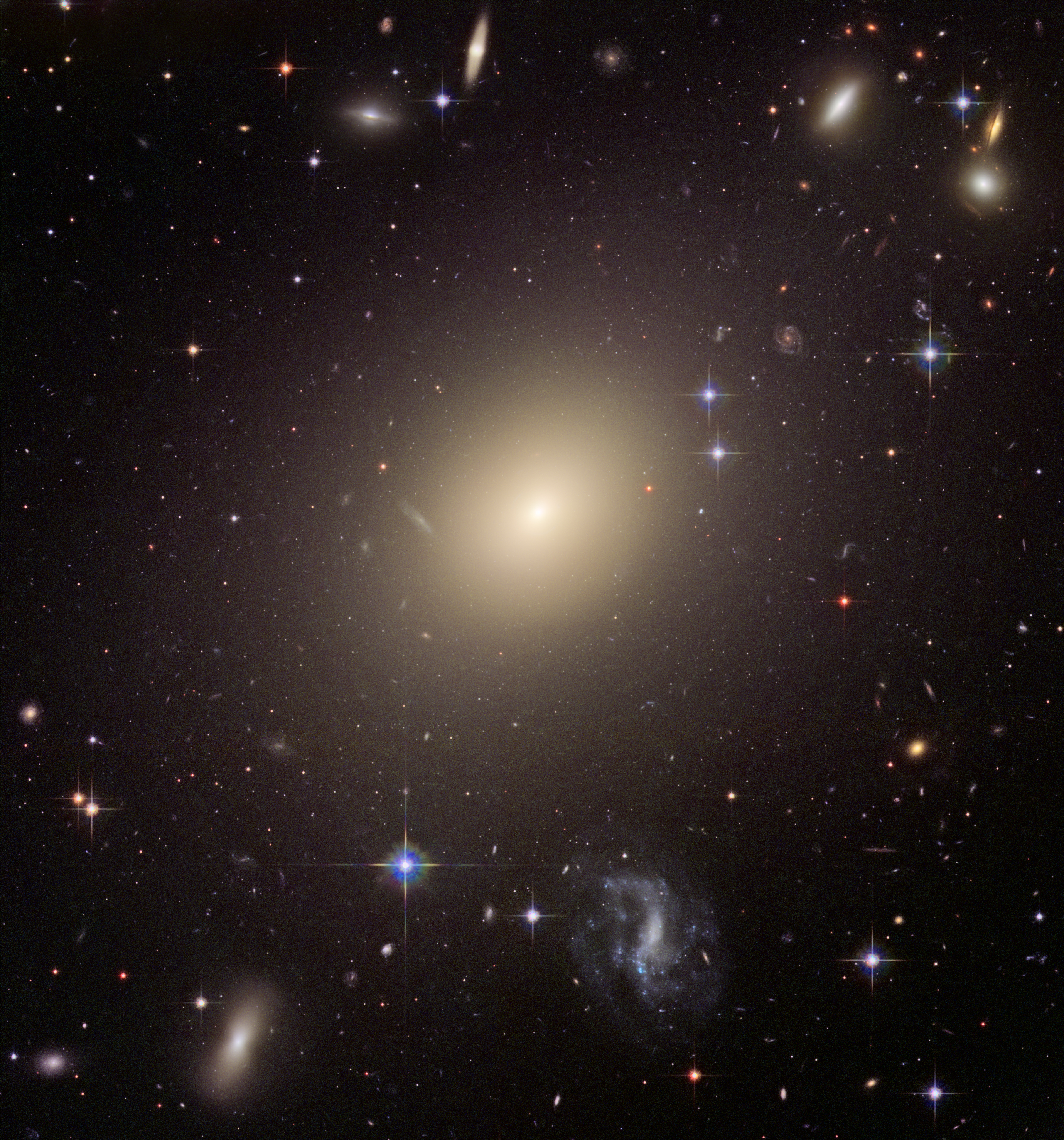 Hubble Illuminates Cluster of Diverse Galaxies (Abell S0740) - This image from NASA's Hubble Space Telescope shows the diverse collection of galaxies in the cluster Abell S0740 that is over 450 million light-years away in the direction of the constellation Centaurus. The giant elliptical ESO 325-G004 looms large at the cluster's center. The galaxy is as massive as 100 billion of our suns. Hubble resolves thousands of globular star clusters orbiting ESO 325-G004. Globular clusters are compact groups of hundreds of thousands of stars that are gravitationally bound together. At the galaxy's distance they appear as pinpoints of light contained within the diffuse halo. Other fuzzy elliptical galaxies dot the image. Some have evidence of a disk or ring structure that gives them a bow-tie shape. Several spiral galaxies are also present. The starlight in these galaxies is mainly contained in a disk and follows along spiral arms. This image was created by combining Hubble science observations taken in January 2005 with Hubble Heritage observations taken a year later to form a 3-color composite. The filters that isolate blue, red and infrared light were used with the Advanced Camera for Surveys aboard Hubble.